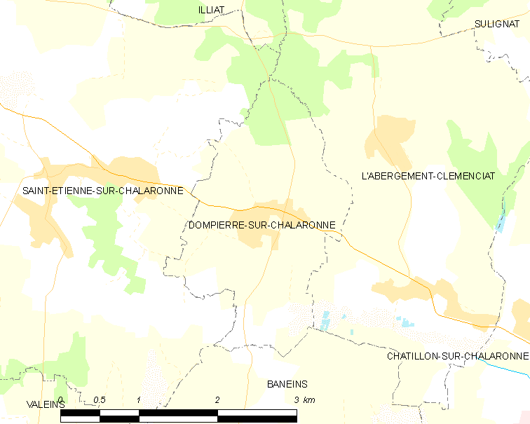 Map of French commune: Dompierre-sur-Chalaronne Map commune FR insee code 01146.png